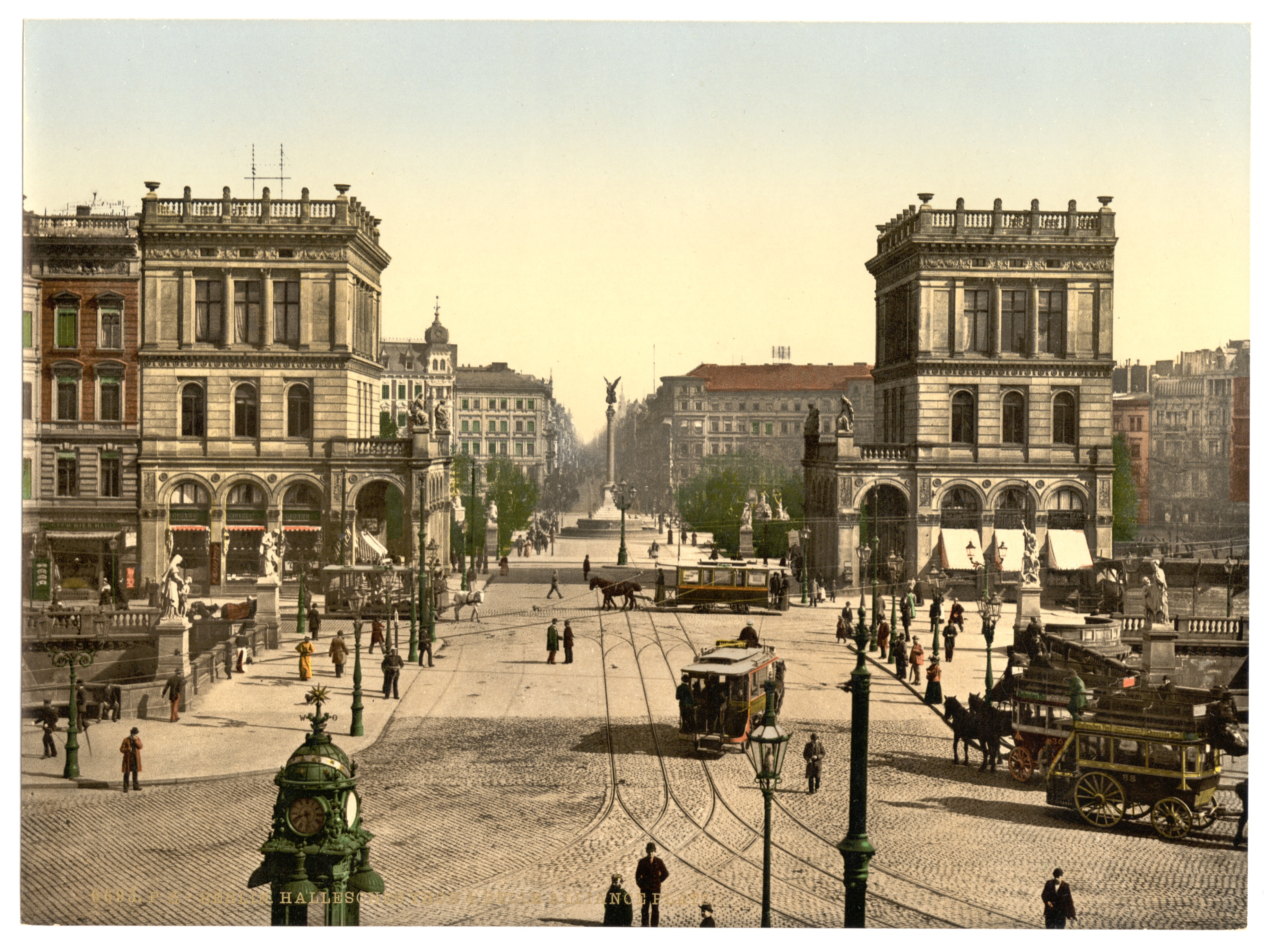 Title from the Detroit Publishing Co., catalogue J-foreign section. Detroit, Mich. : Detroit Photographic Company, 1905..; Forms part of: Views of Germany in the Photochrom print collection.; Print no. "6693".